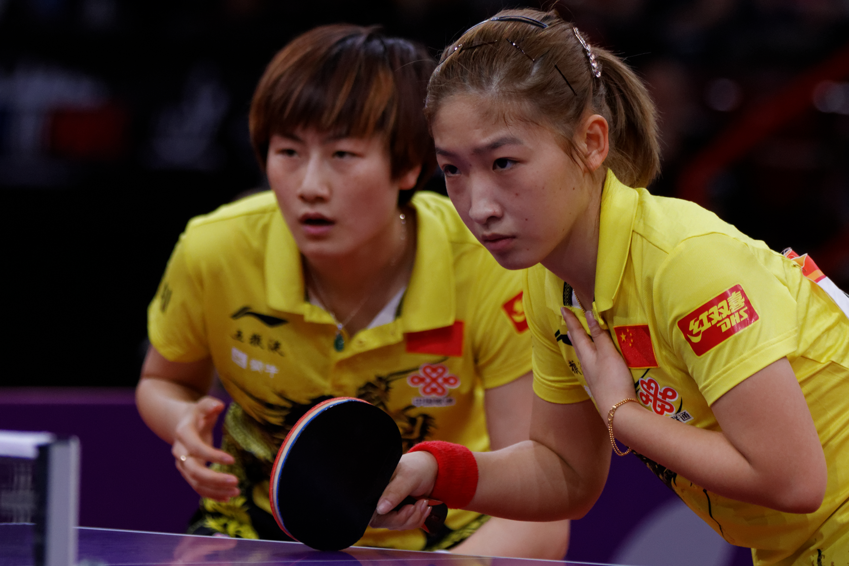 2013 World Table Tennis Championships, Paris. Women's Doubles Finals.